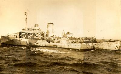 Original caption: H.M.S.C. Arrowhead participated in the Battle of the Gulf of St. Lawrence during the Second World War. Photo probably taken by Geoffrey Smith, Arrowhead's ASDIC operator.